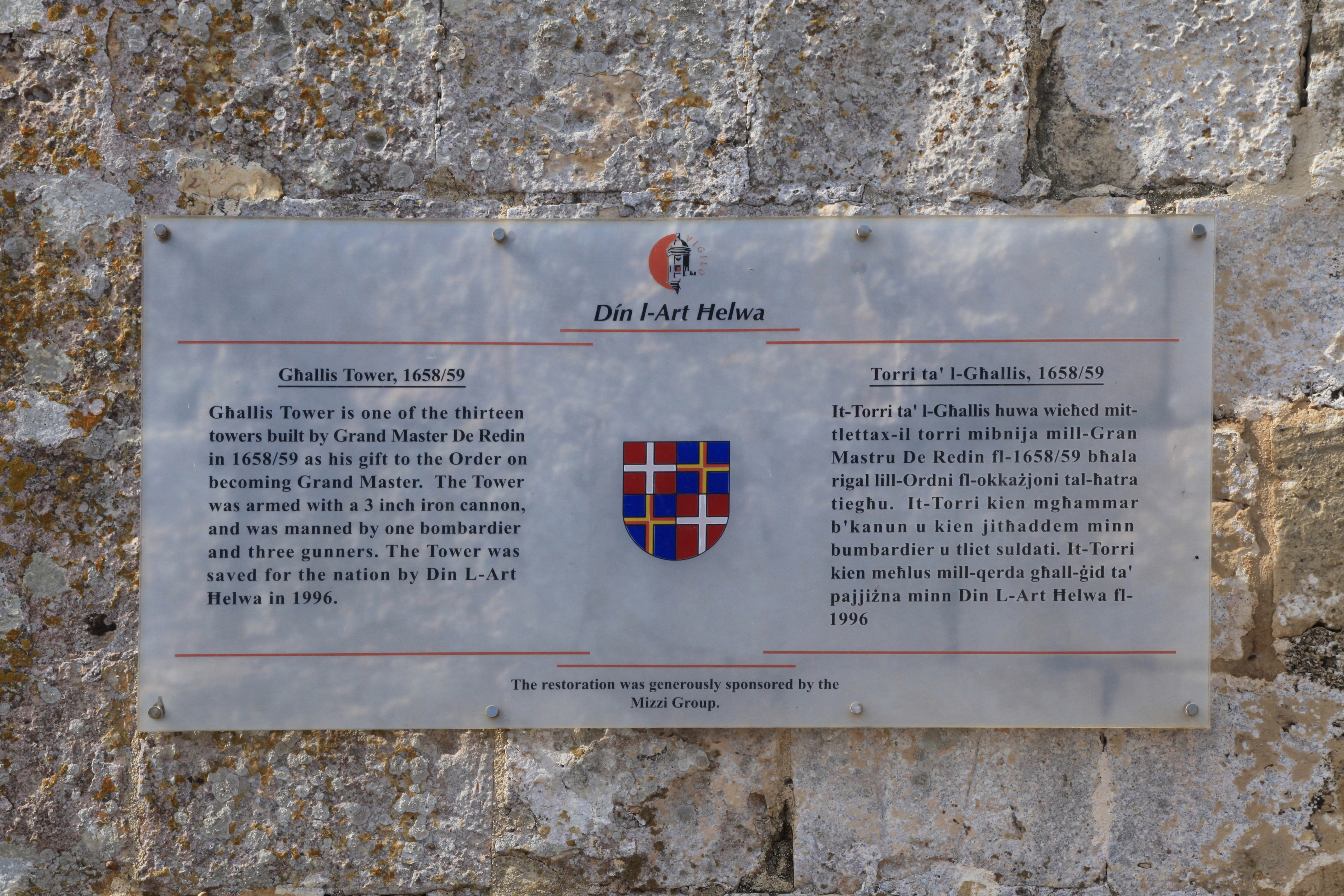 Għallis Tower at Tul il-Kosta in Naxxar, Malta